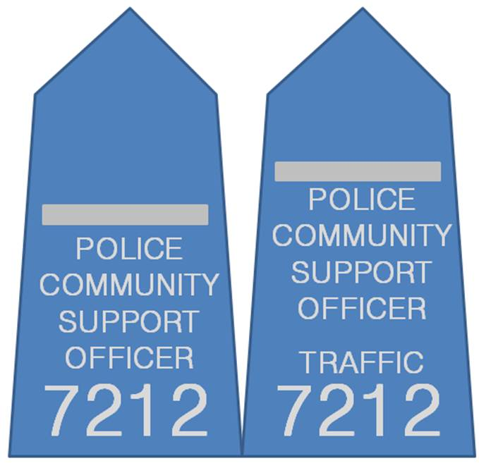 Uniform epaulettes of specialist/alternative PCSO ranks in UK police forces.